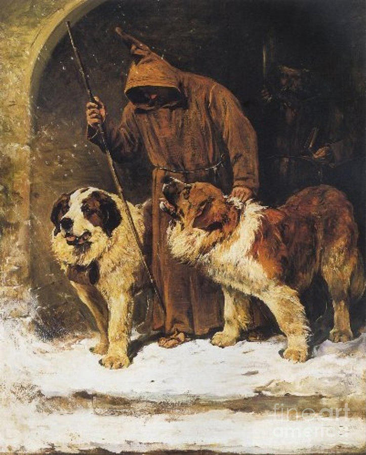 Painting by John Emms portraying two St. Bernards as rescue dogs with brandy barrels around their neck. According to legend, the brandy was used to warm the bodies of trapped people in avalanches or snow before help came.